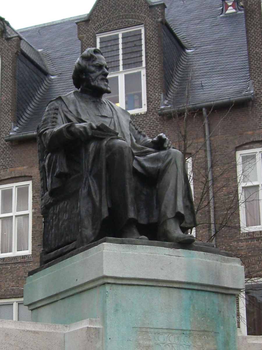 Statue of professor Fransiscus Cornelis Donders in Utrecht, The Netherlands, made by Toon Dupuis in 1921[1].